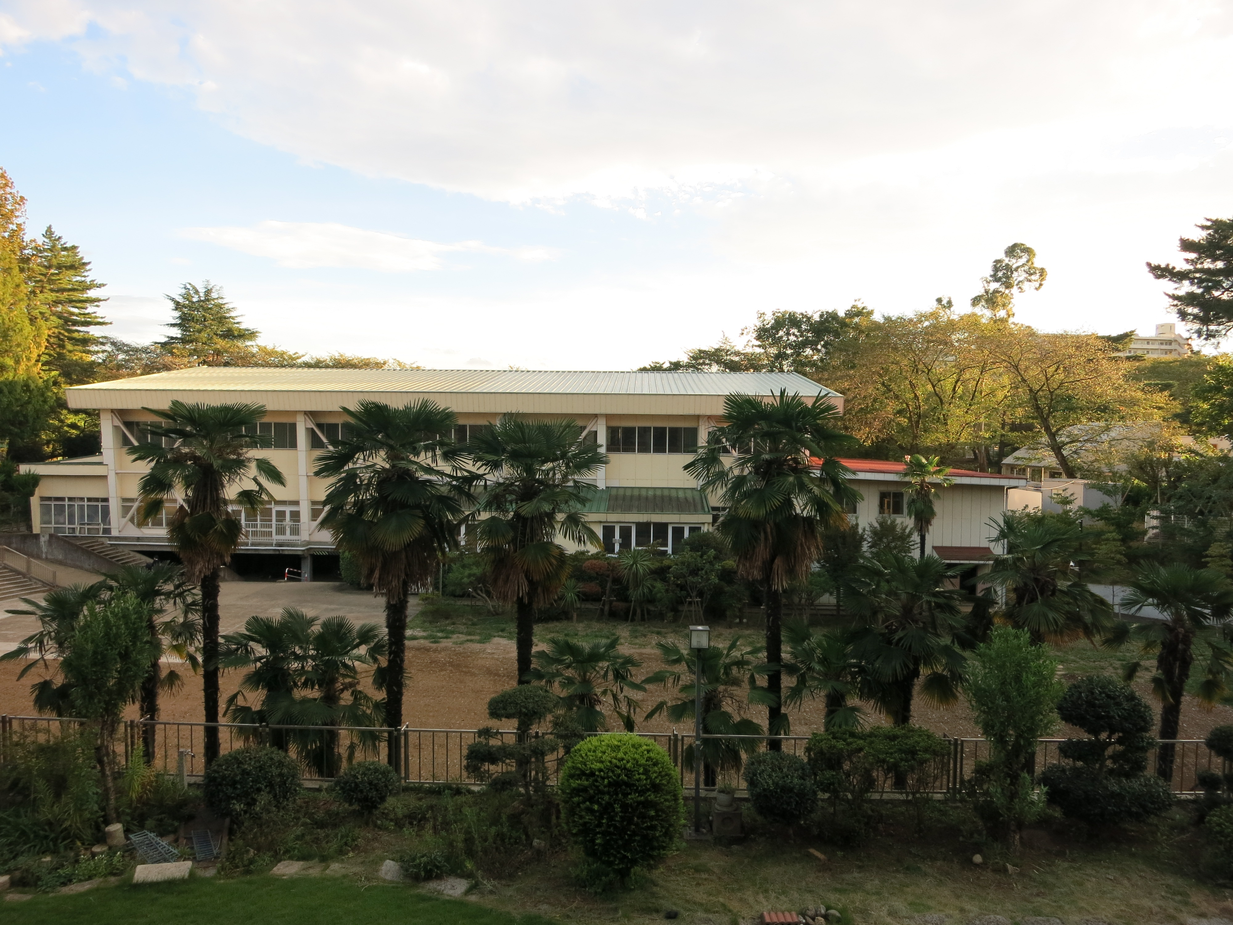 The main gymnasium for Musashino University. Nishitokyo, Tokyo, Japan